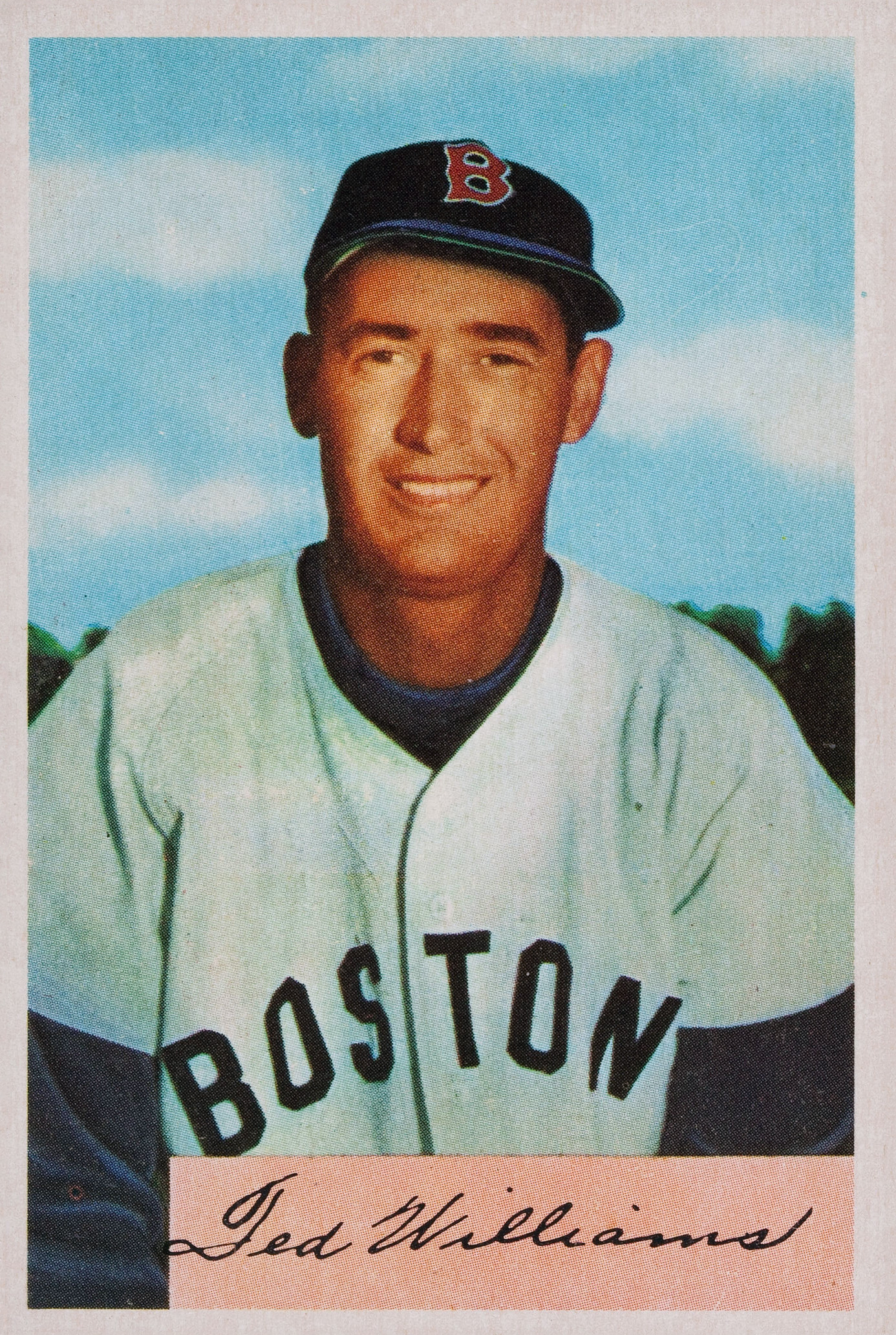 1954 Bowman Ted Williams